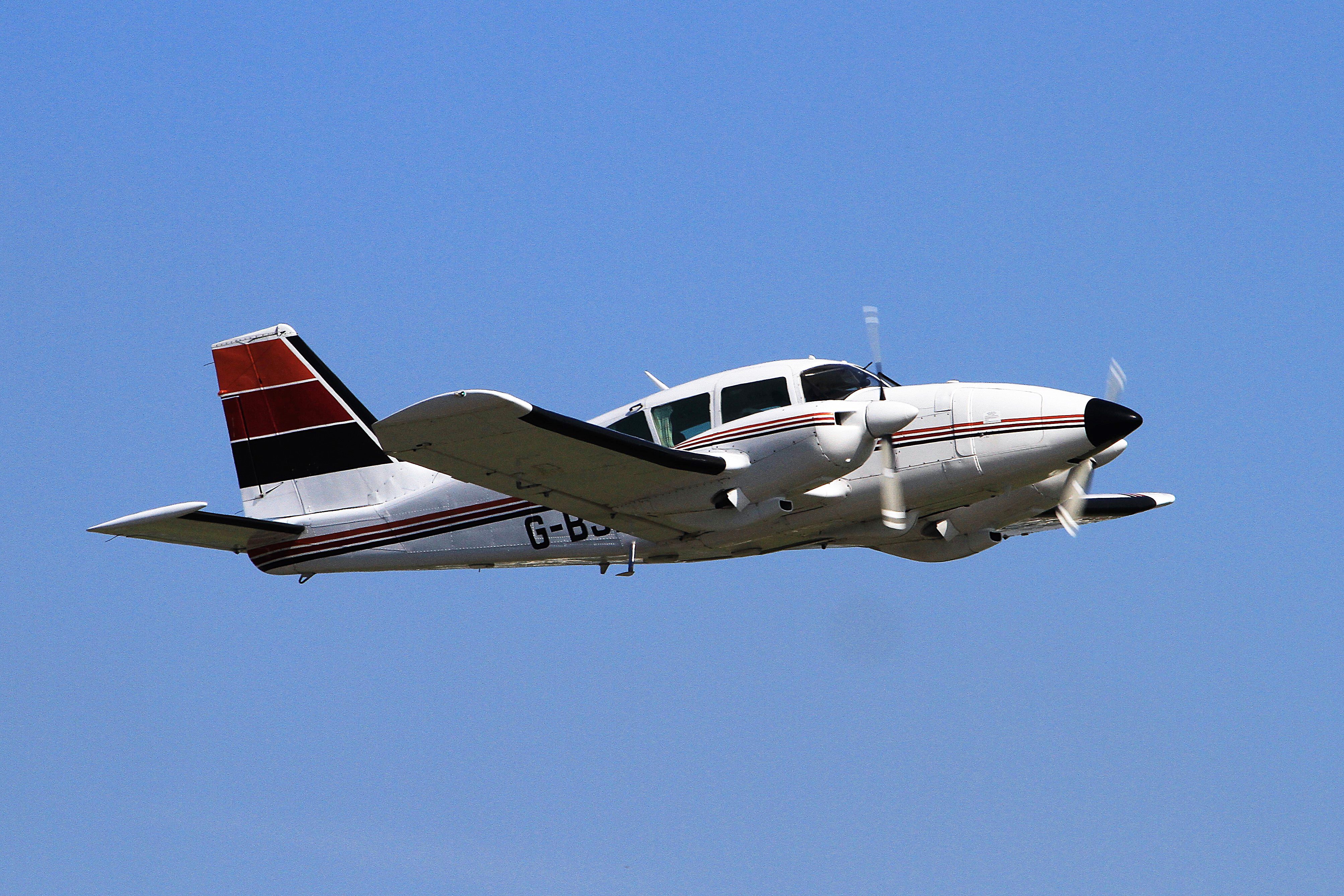 G-BJNZ Piper PA23 Aztec Coventry 10-05-2017